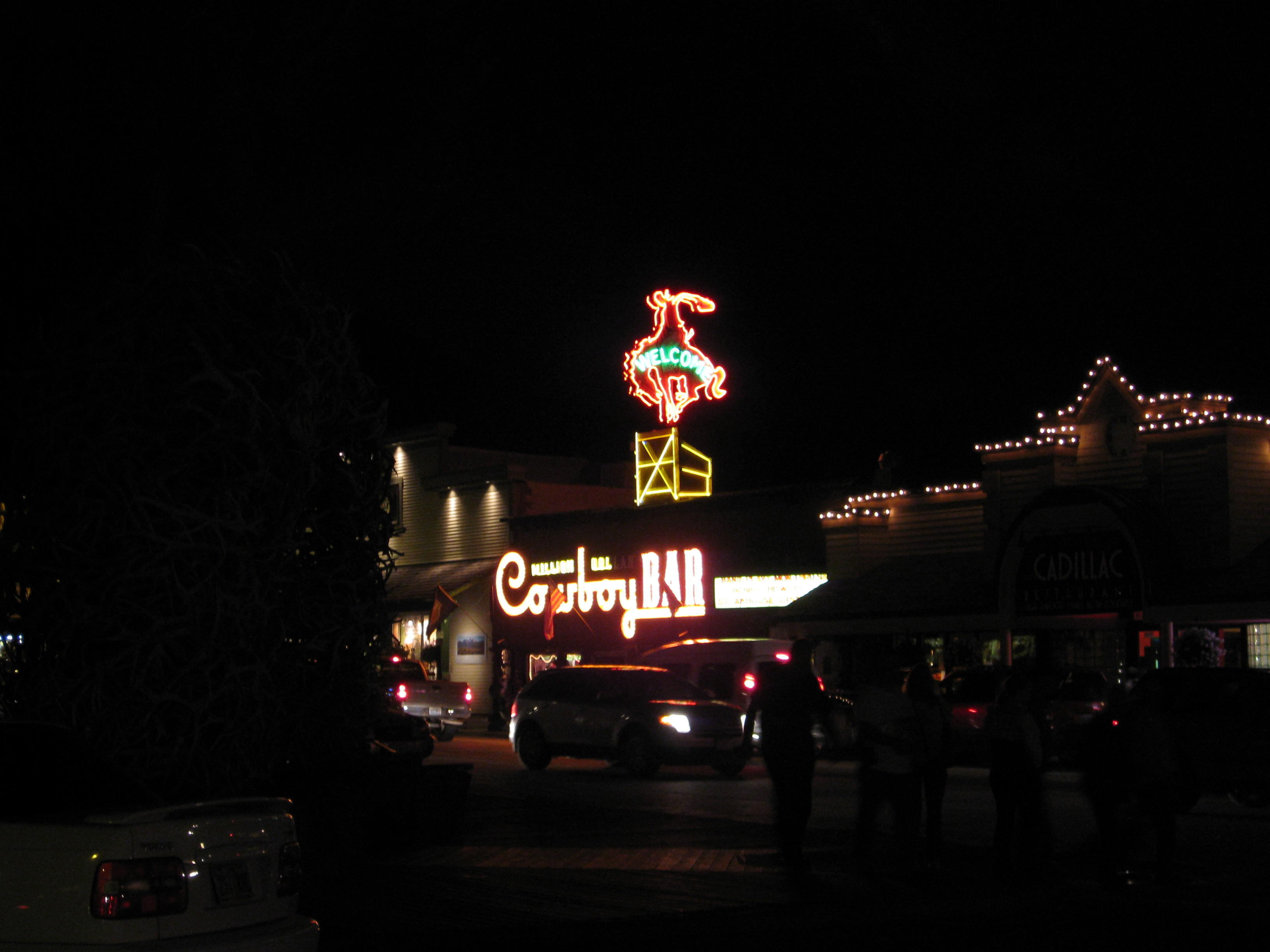 A night shot I took of the Million Dollar Cowboy Bar, 25 North Cache Drive, Jackson, Wyoming, USA